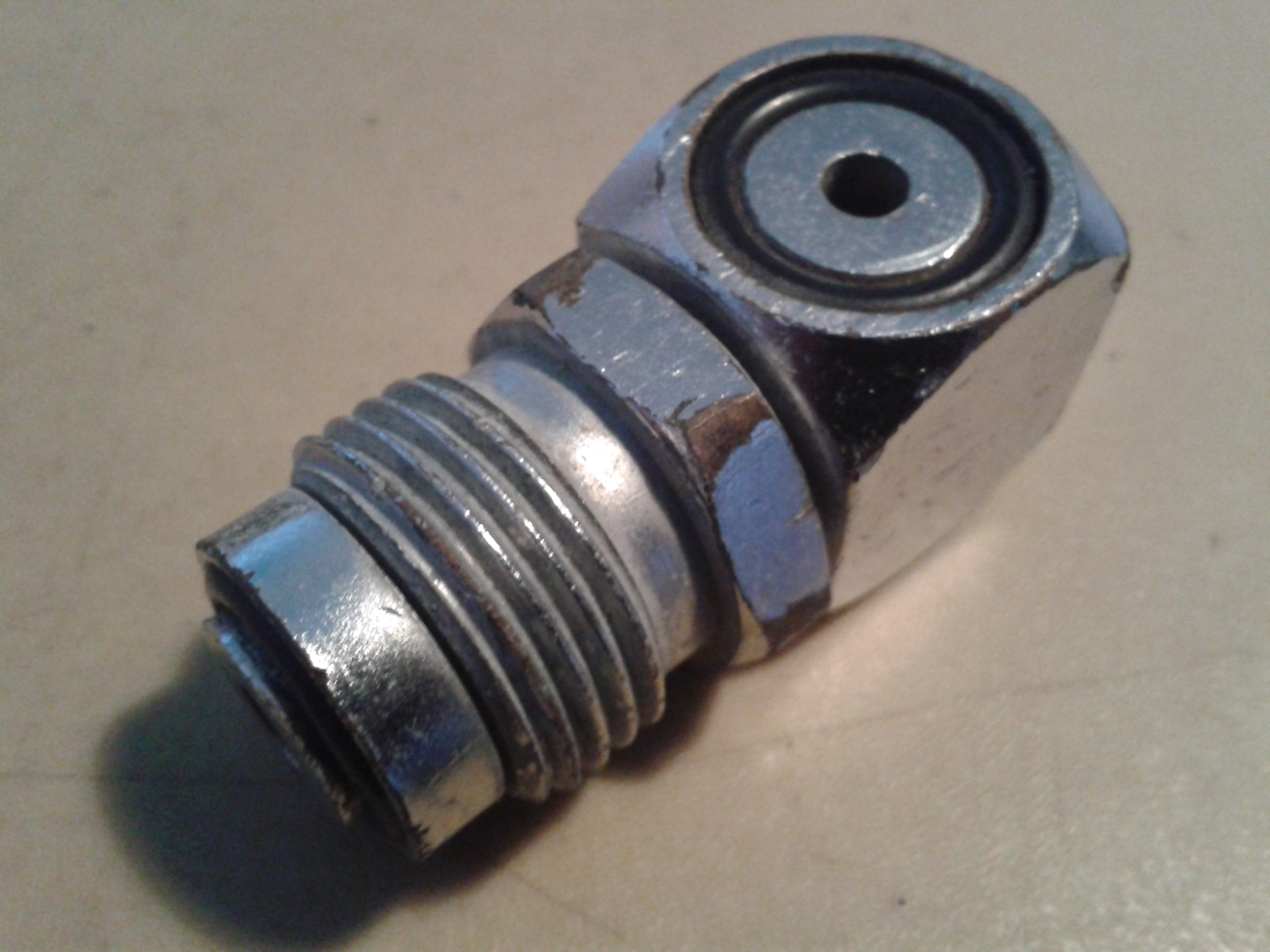 Scuba block adaptor - DIN cylinder to yoke regulator